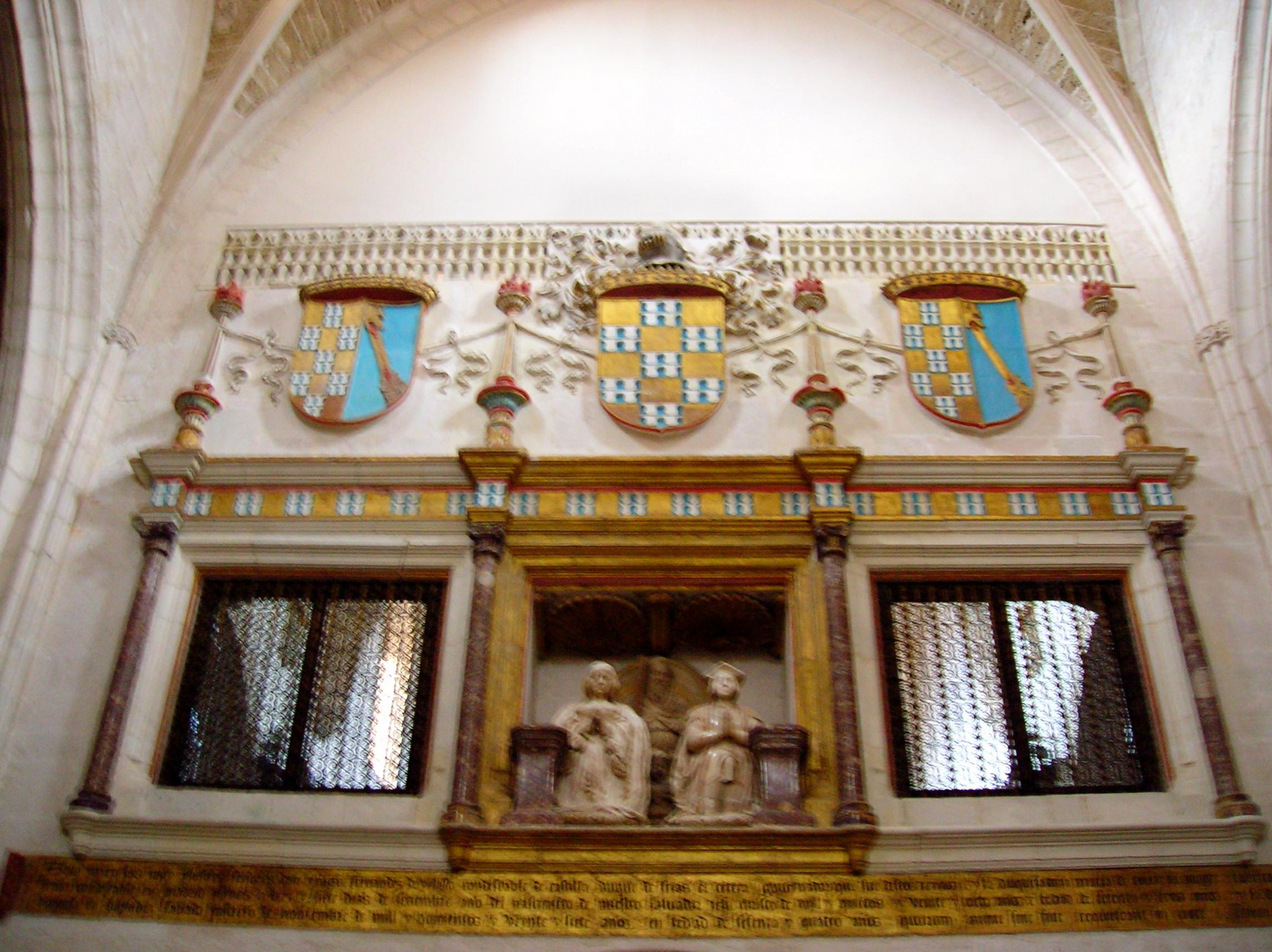 Iglesia del Monasterio de Santa Clara, en Medina de Pomar (Burgos, Castilla y León, España)